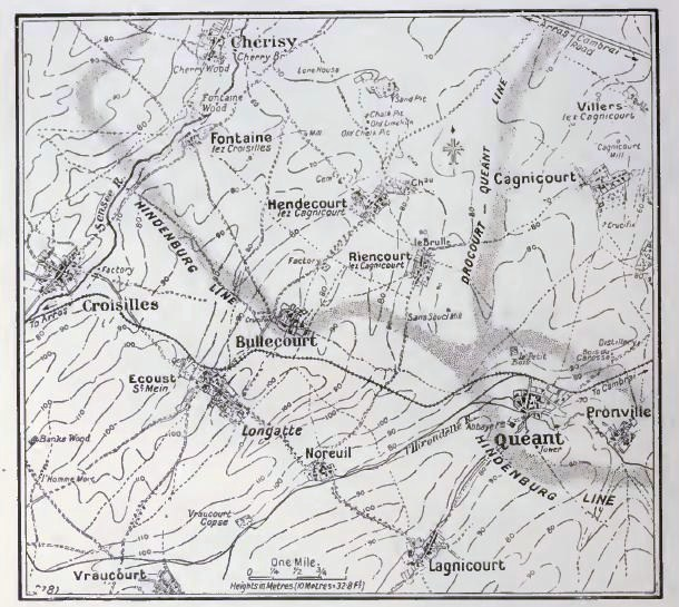 map of Sigfriedstellung/Hindenburg Line, Bullecourt, 1917